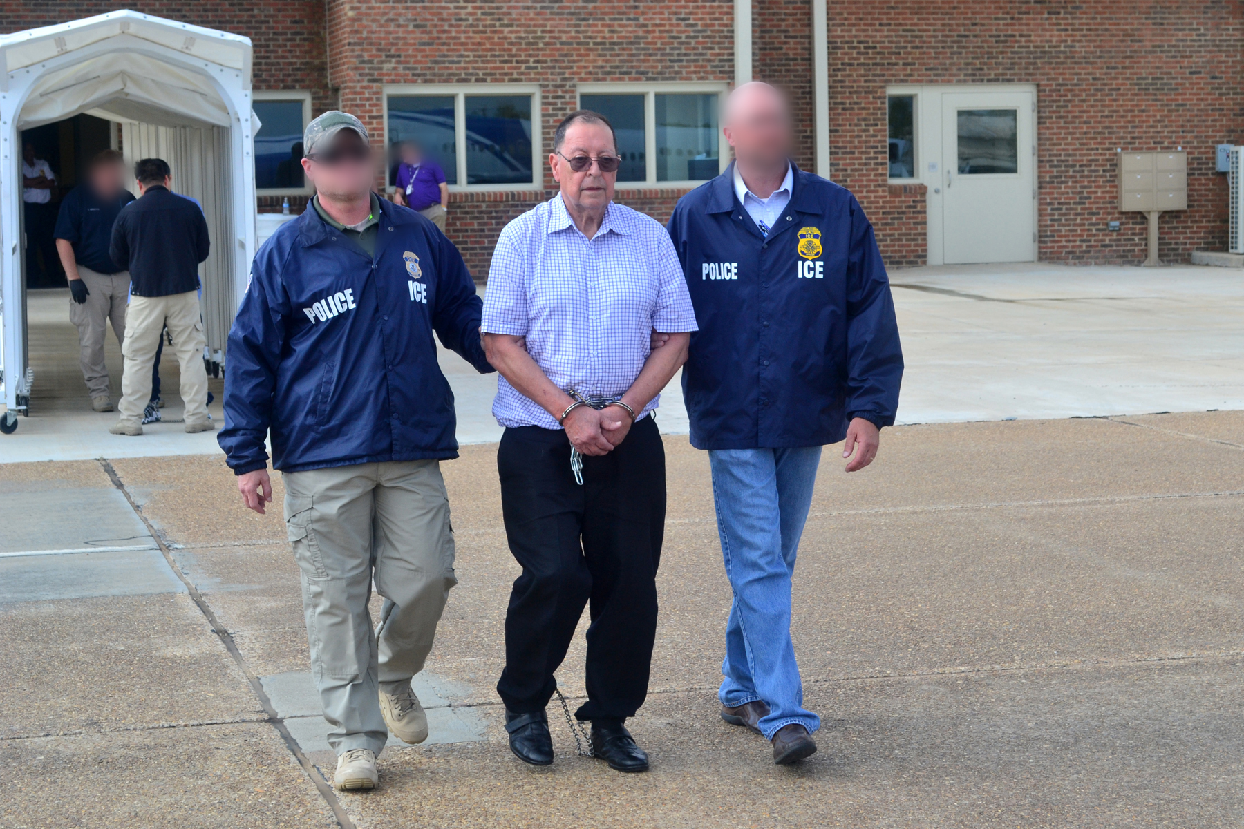 In a published decision March 11, the BIA dismissed the appeal of Carlos Eugenio Vides Casanova, 77, the former director of the National Guard (1979-1983) and Minister of Defense (1983-1989) of El Salvador.